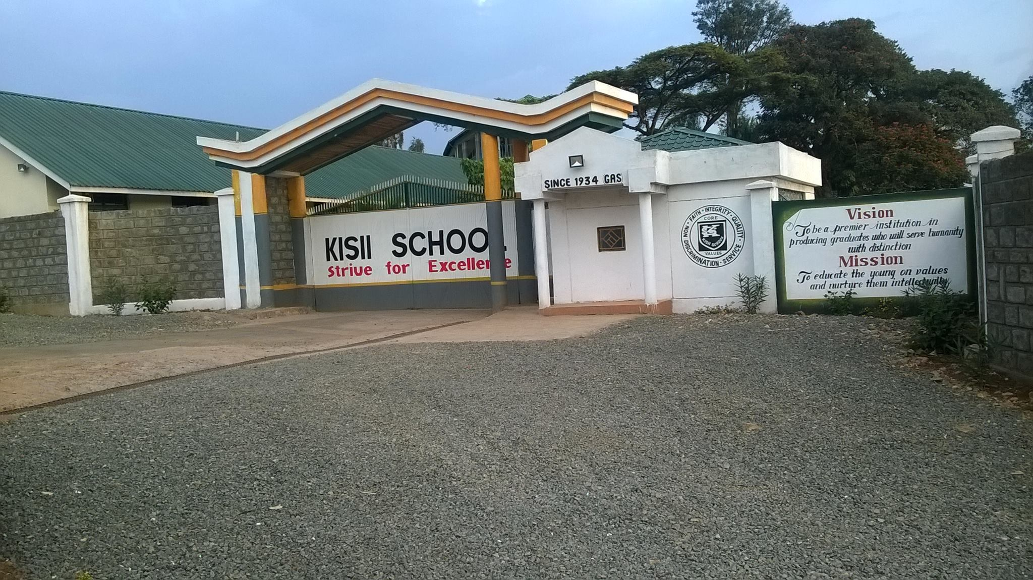 Greatness Awaits